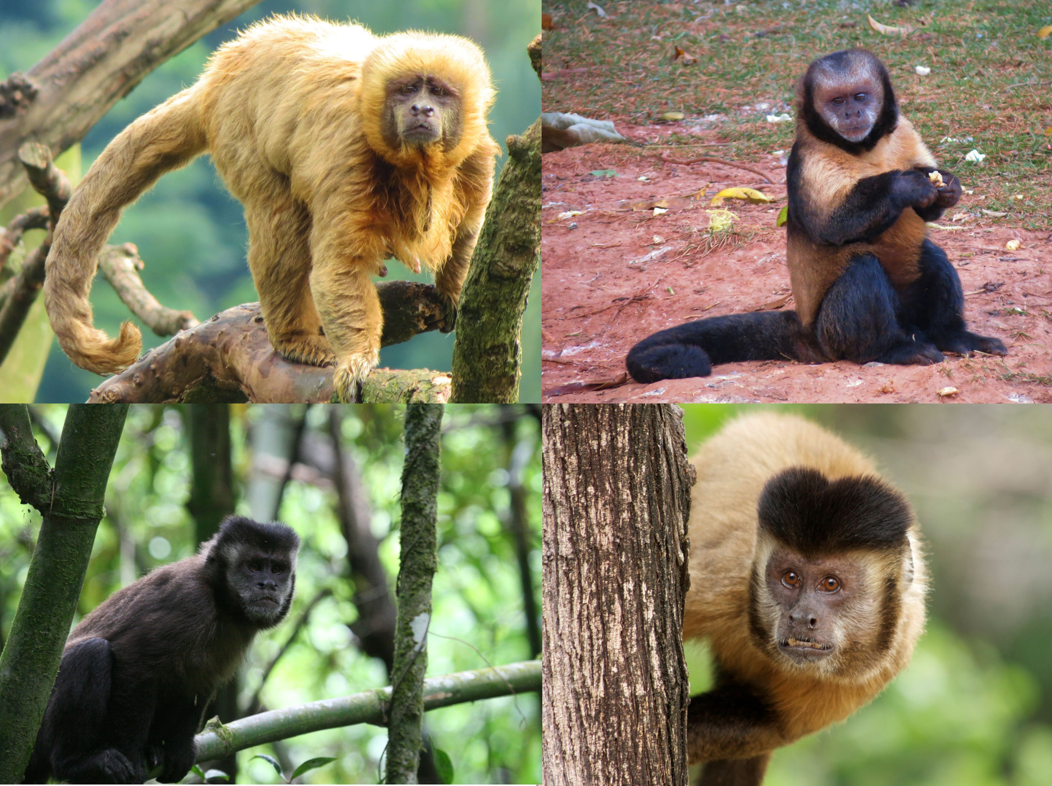 Black capuchin (Sapajus nigritus) in Brazil.